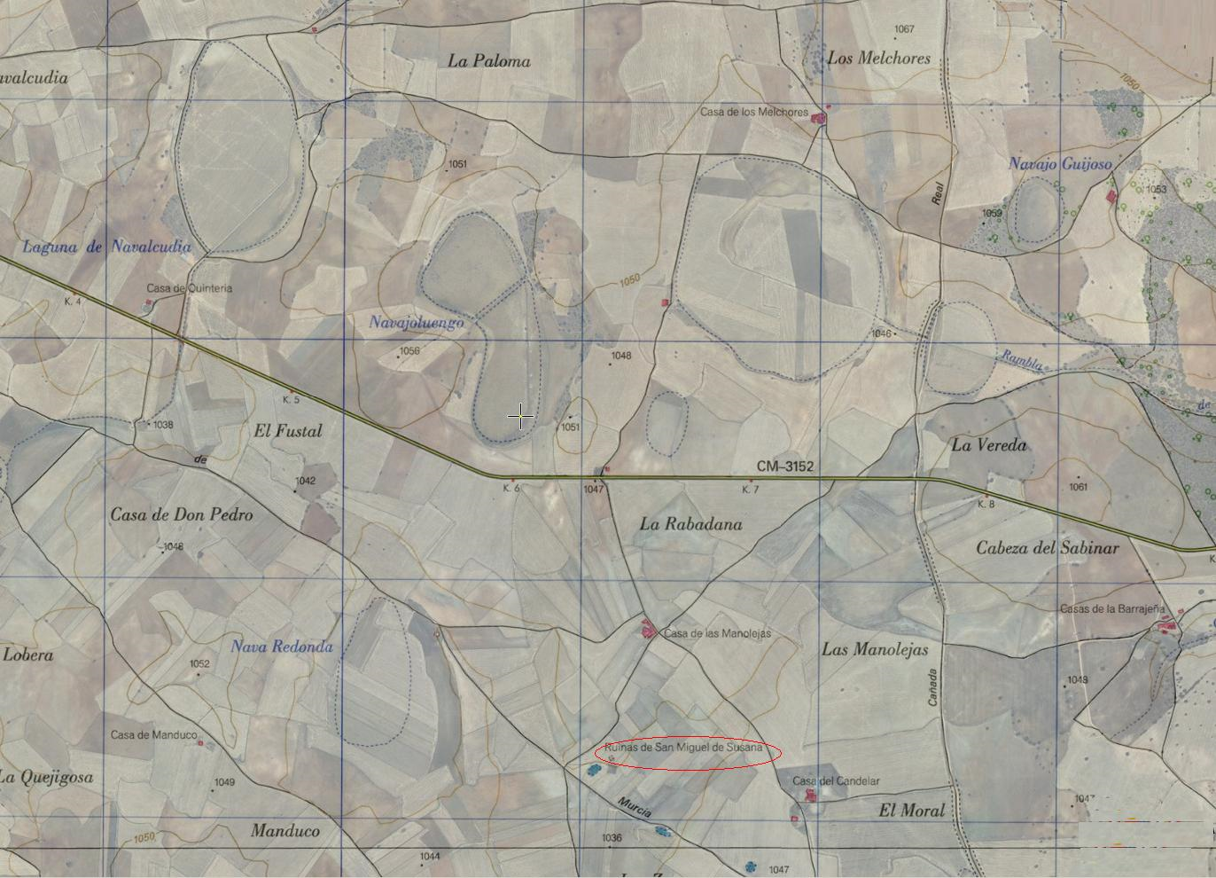 Localización de las principales navas del Complejo lagunar de Navalcudia